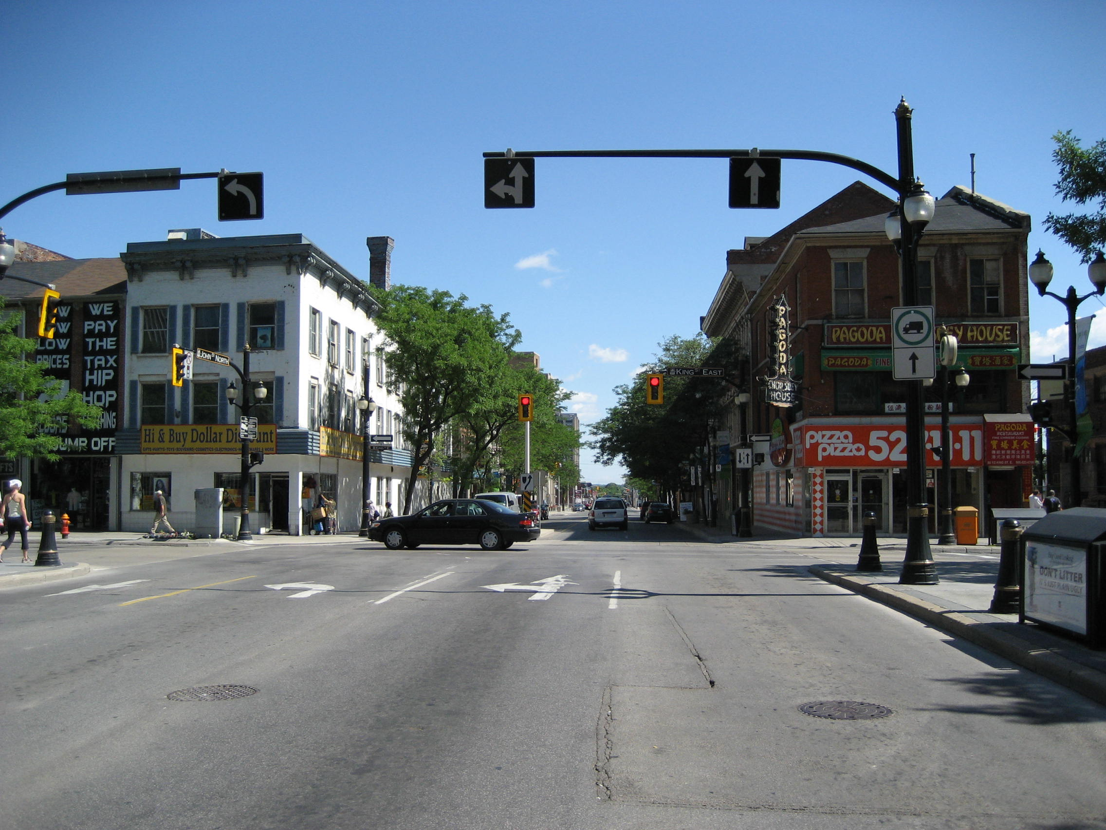 Kenilworth Avenue South, Hamilton, Ontario